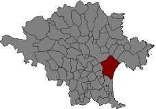 Location of Castelló d'Empúries in Alt Empordà